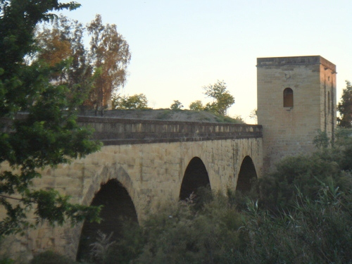 puente